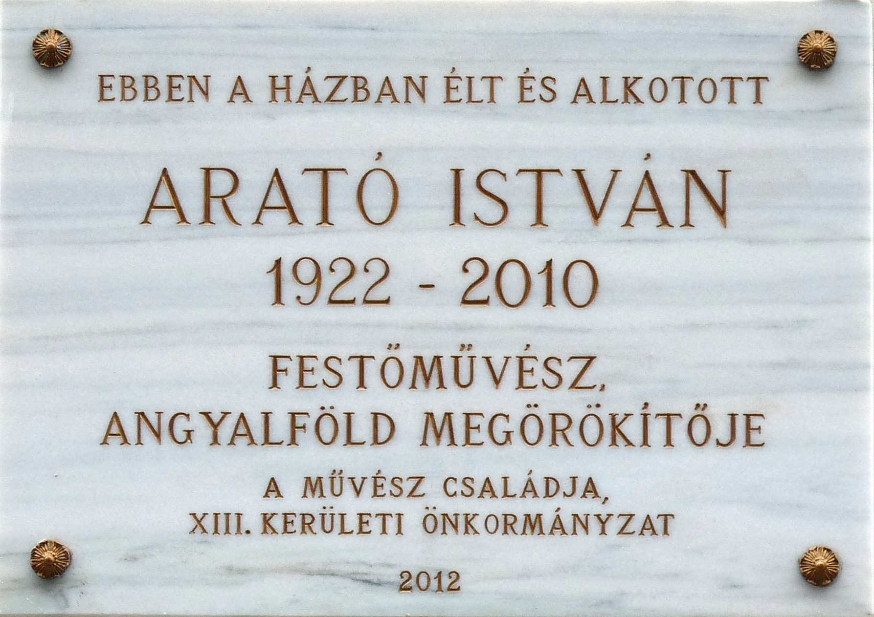 Commemorative plaque to Mr. István Arató (1922-2010) Hungarian painter affixed to the wall of the building where he lived and worked. It was unveiled on November 8, 2012. (Budapest, District XIII, Hegedűs Gyula Street Nr 40).